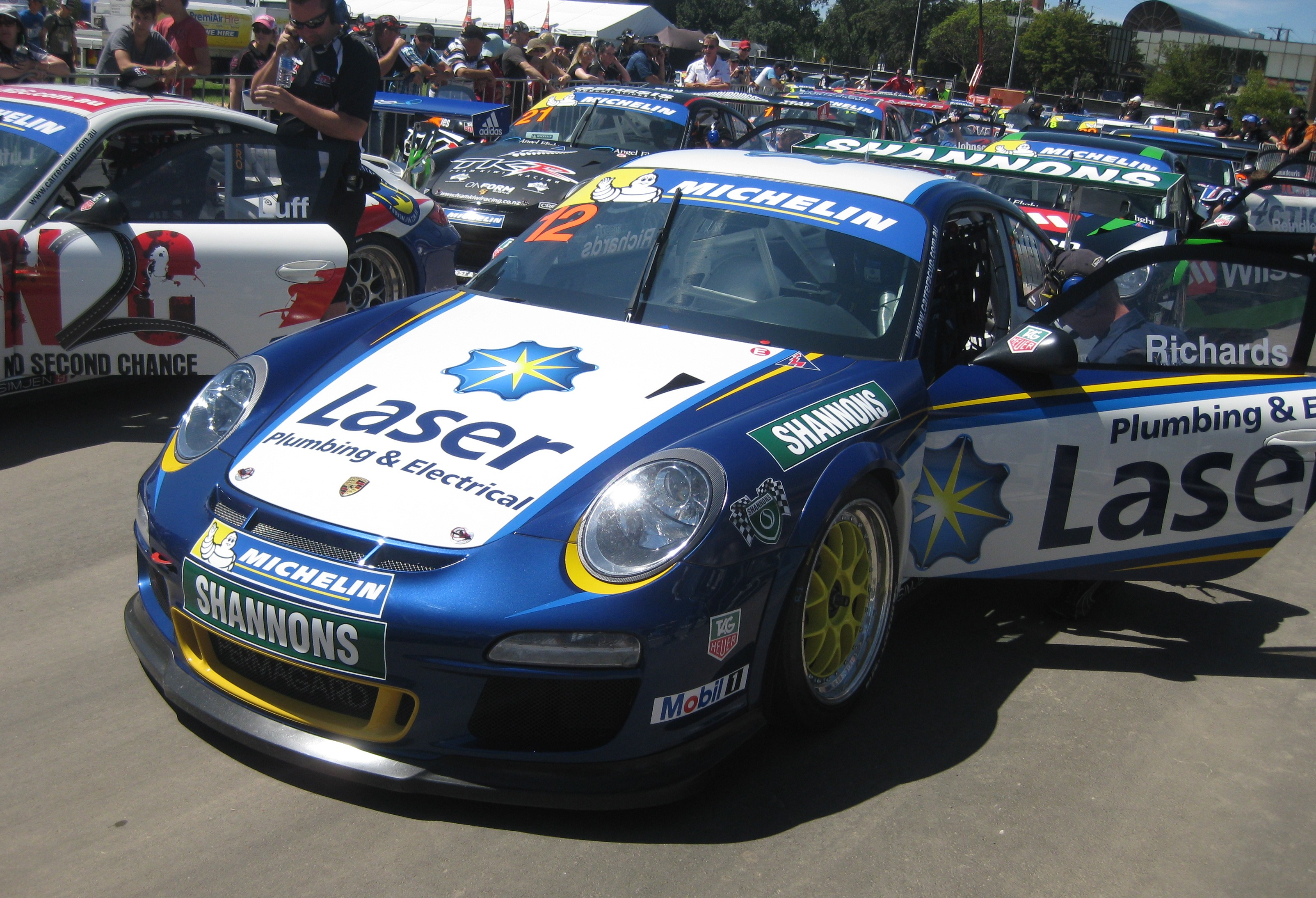 The Porsche 911 GT3 Cup Type 997 of Steven Richards at the Adelaide round of the 2013 Australian Carrera Cup Championship